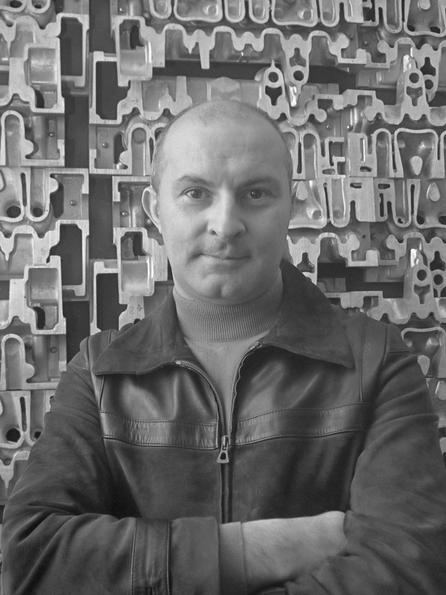 Arman in front of one of his Accumulations at Stedelijk Museum in 1969